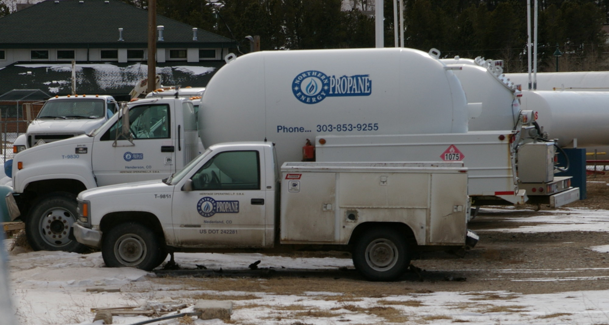 A normal residential propane delivery truck behind the pickup.